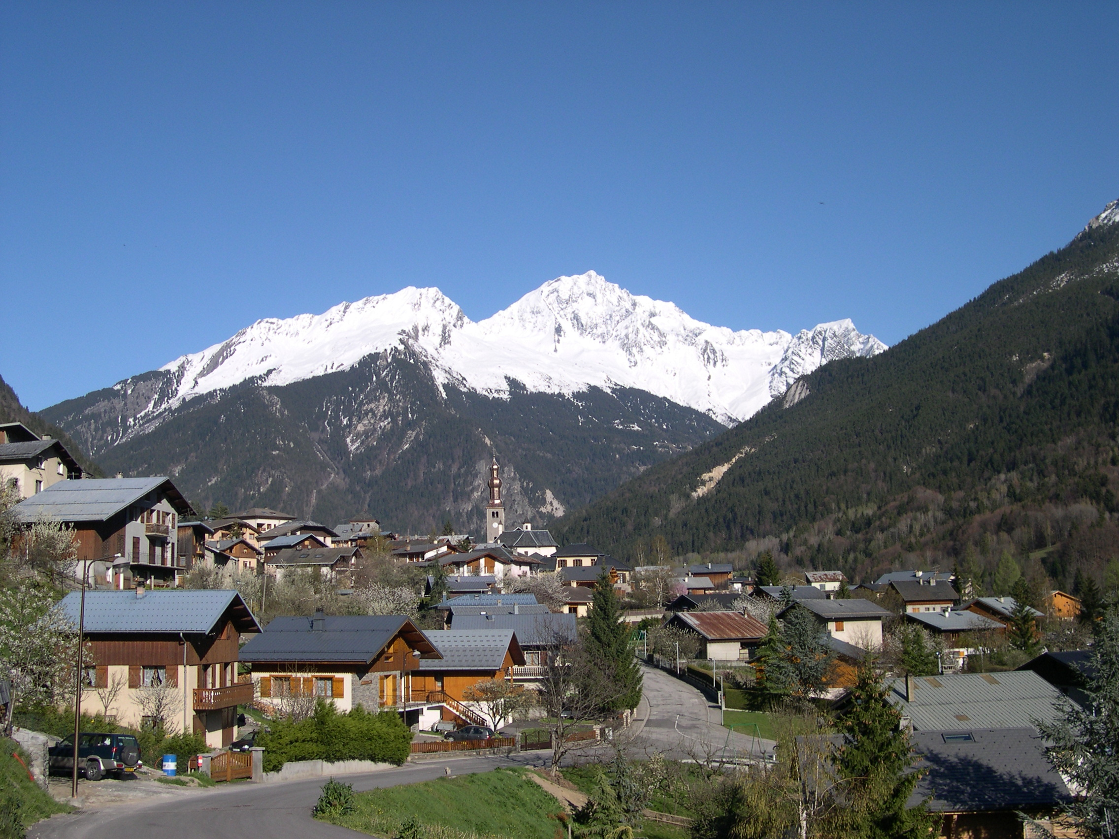 General sight, with the bell-tower with bulb and the Grand Bec mountain